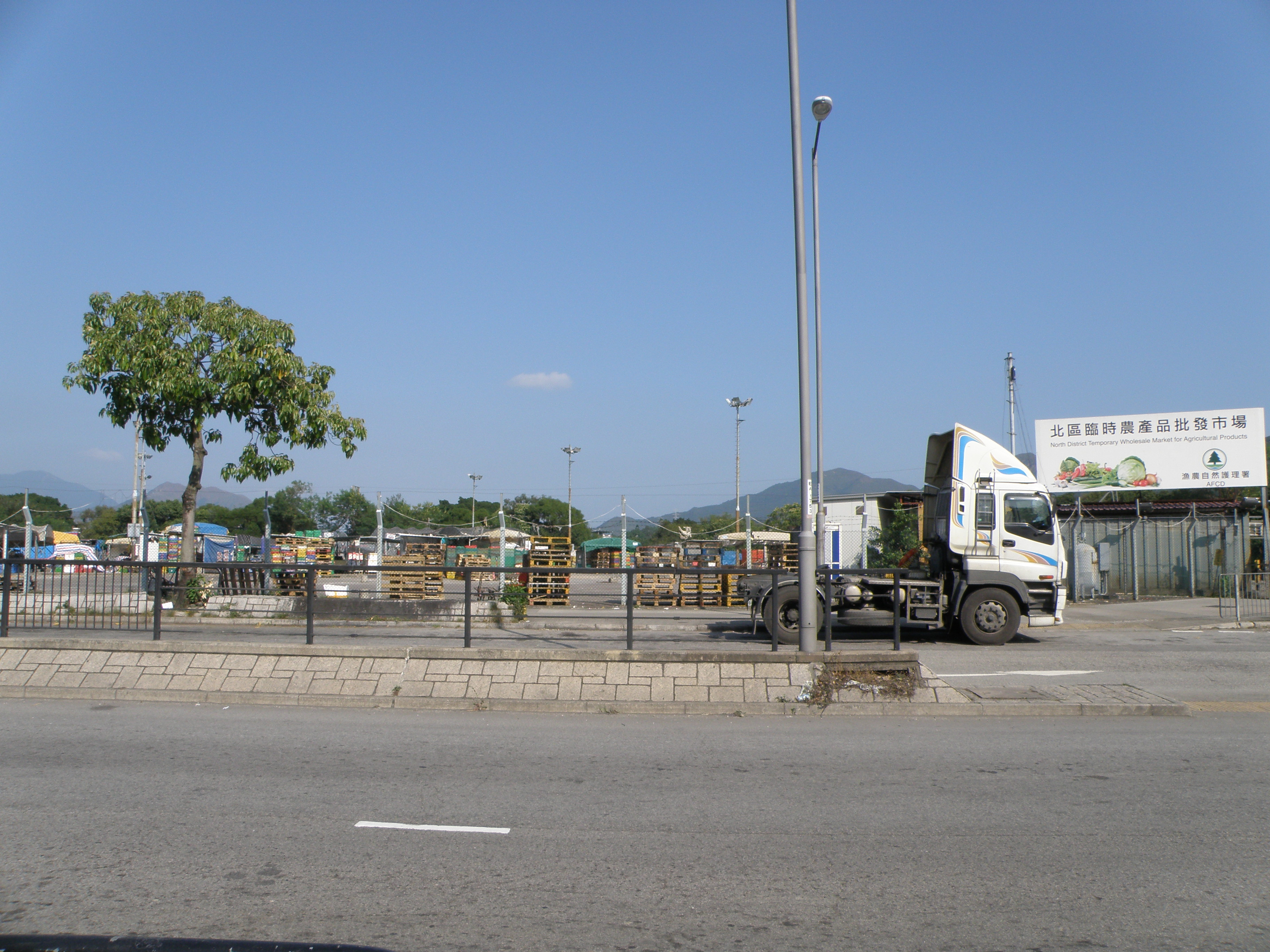 North District Temporary Wholesale Market For Agricultural Products in Fanling, Hong Kong.